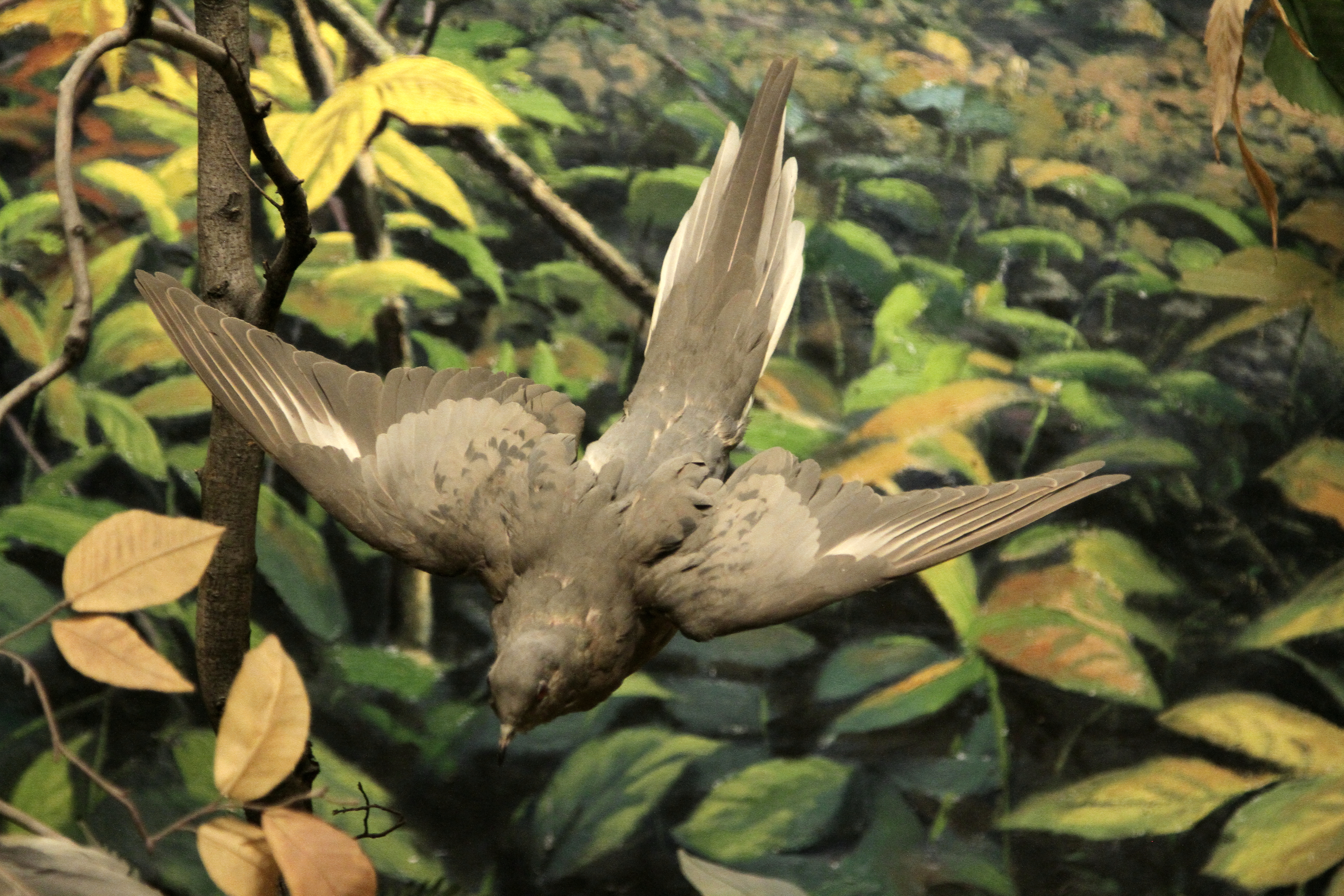 Academy of Natural Sciences of Drexel University 1900 Benjamin Franklin Parkway Philadelphia, PA 19103 March 18, 2013